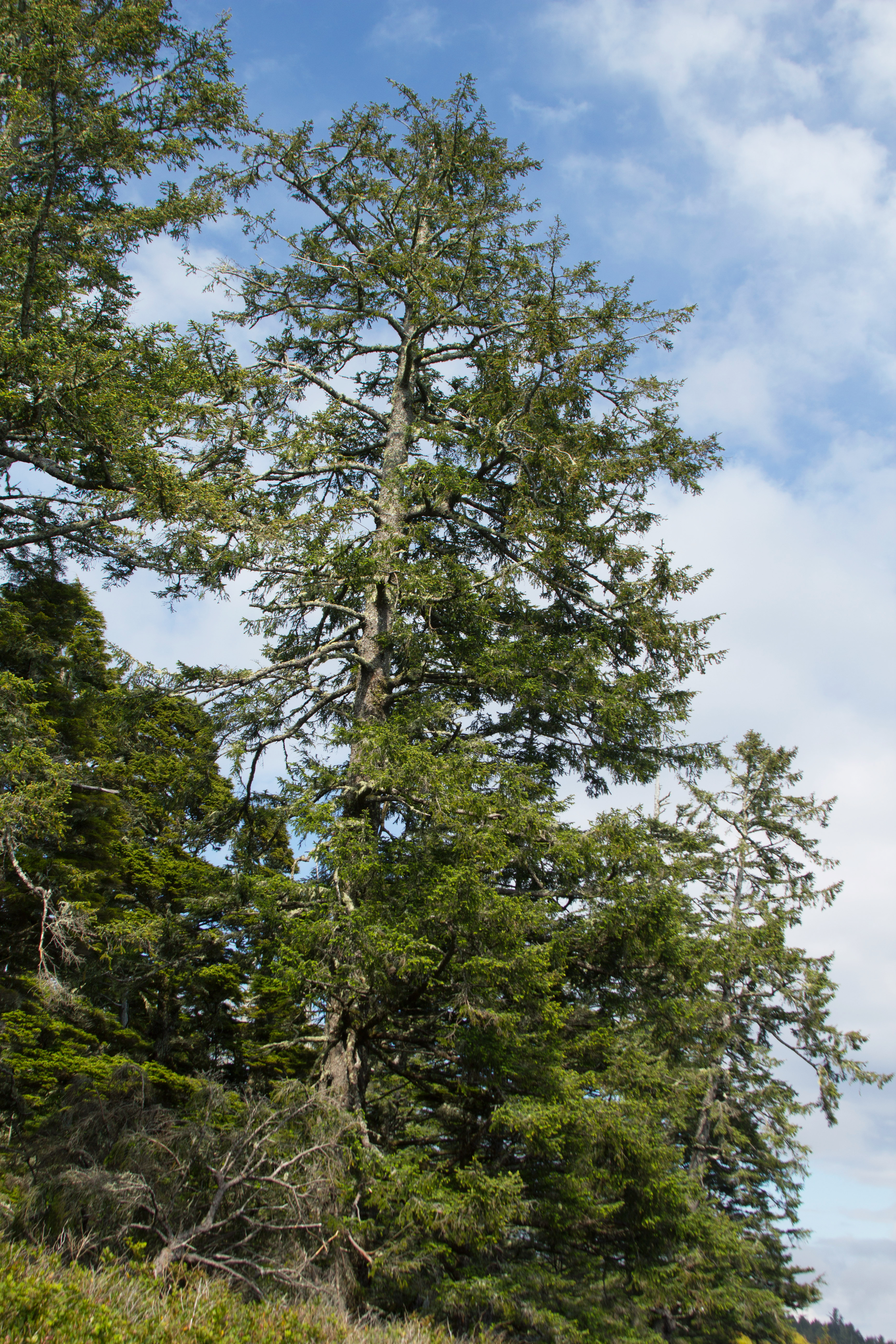 Picea sitchensis, Wild Pacific Trail, Ucluelet, Vancouver Island, British Columbia.